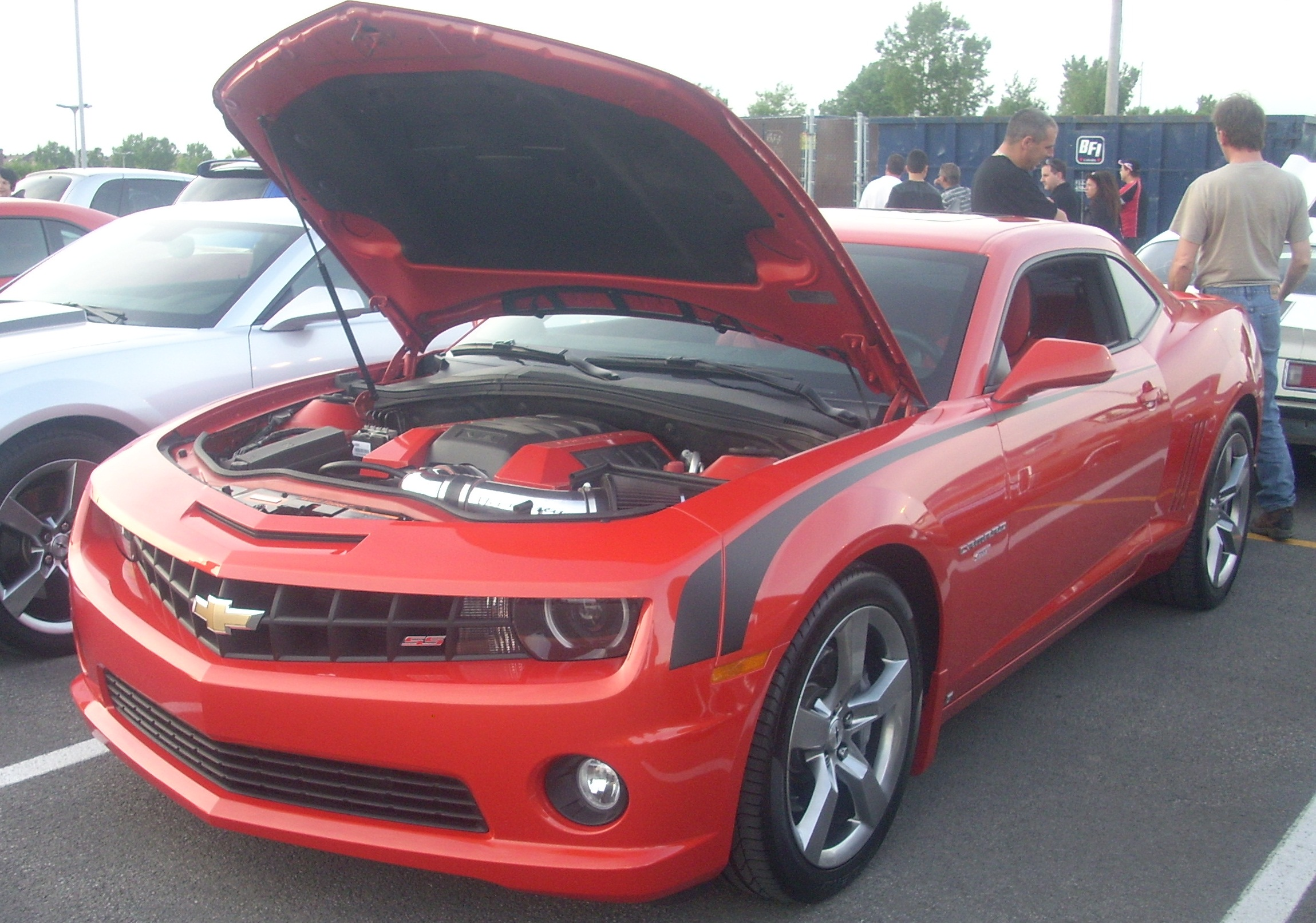 2010 Chevrolet Camaro photographed in Laval, Quebec, Canada at Centropolis Laval.